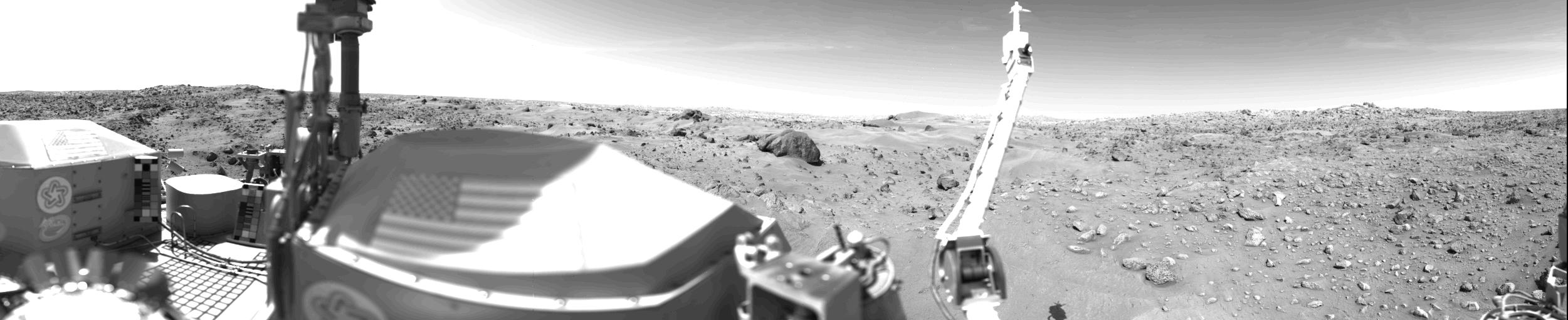 PIA00391: Sand Dunes And Large Rocks Revealed By Camera 1 Target Name: Mars Is a satellite of: Sol (our sun) Mission: Viking Spacecraft: Viking Lander 1 Instrument: Camera 1 Produced By: JPL Producer ID: P17428 Primary Data Set: Viking EDRs Sand dunes and large rocks are revealed in this panorama picture of Mars, the first photograph taken by Viking l's Camera 1 on July 23. The horizon is approximately 3 kilometers (2 miles) away. The left and right thirds of this picture are the same areas that were photographed on July 20 (Sol O) by Camera 2 and provide stereo coverage. The middle third reveals a part of the Martian surface not seen on the July 20 panorama. The late afternoon sun is high in the sky over the left side of the picture. The support struts of the S-band high-gain antenna extend to the top of the picture. The American flags are located on the two RTG (Radioisotope Thermoelectric Generator) wind screens. In the middle third of the picture, the rocky surface is covered by thick deposits of wind-blown material, forming numerous dunes. At the center of the picture on the horizon are two low hills which may be part of the rim of a distant crater. Two very large rocks are visible in the middleground; the nearer one is 3 meters (10 feet) in diameter and is 8 meters (25 feet) from the spacecraft. A cloud layer is visible halfway between the horizon and the top of the picture. The meteorology boom is located right of center. Behind it, the 'White Mesa' is visible, which could be seen on the far left side of the Sol O Camera 2 panorama. In the near ground are numerous rocks about 10 cm (4 inches) across, with horseshoe-shaped scour marks on their upwind side and wind tails in their lee. The fine-grained material in front of them contains small pits formed by impact of material kicked out by the Lander spacecraft's rocket engines.